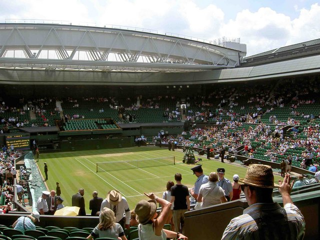 Wimbledon AELTC centre court 2009, near to Wimbledon, Merton, Great Britain. The new roof has yet to be used.